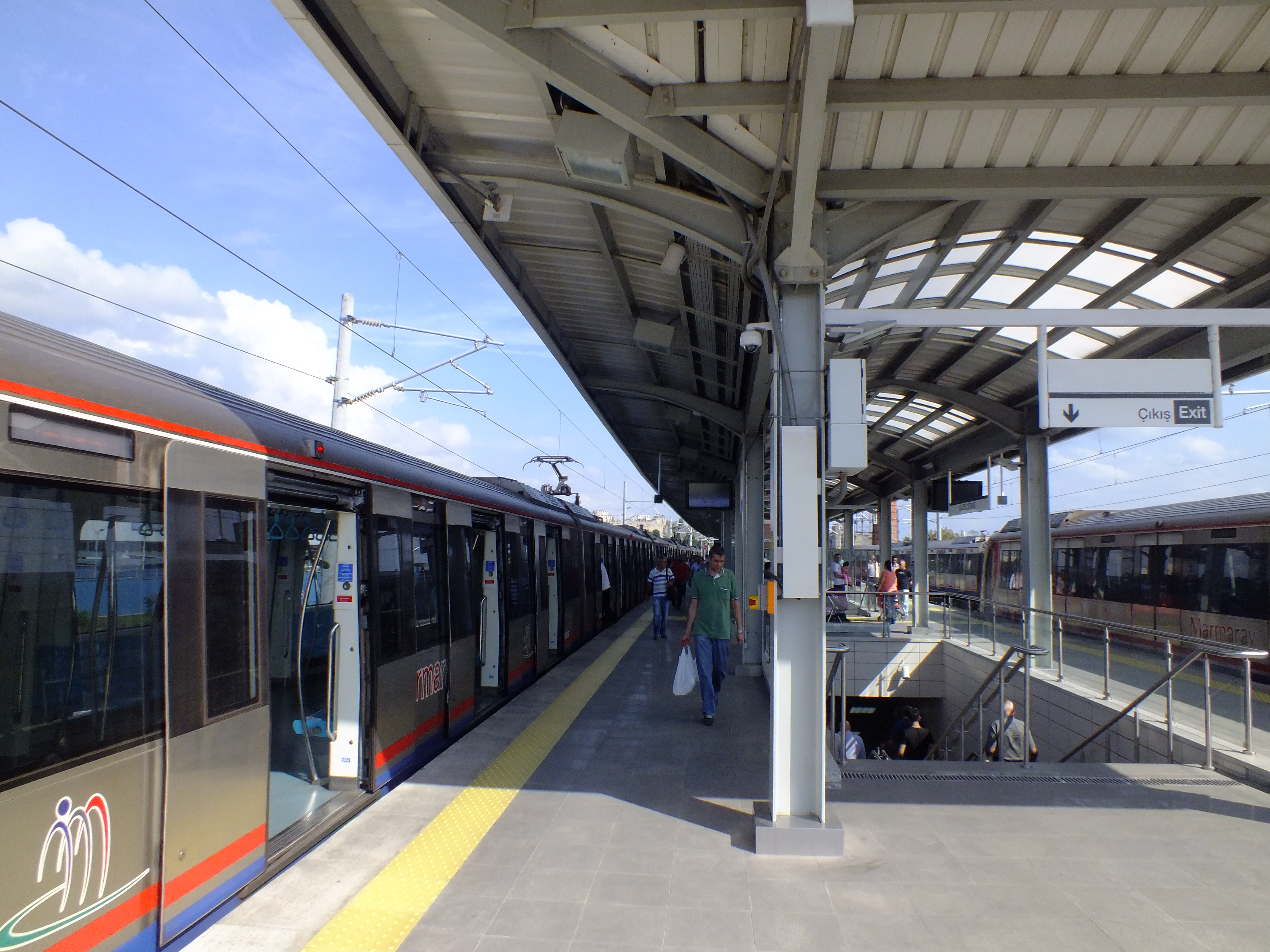 The new Kazlicesme railway station.